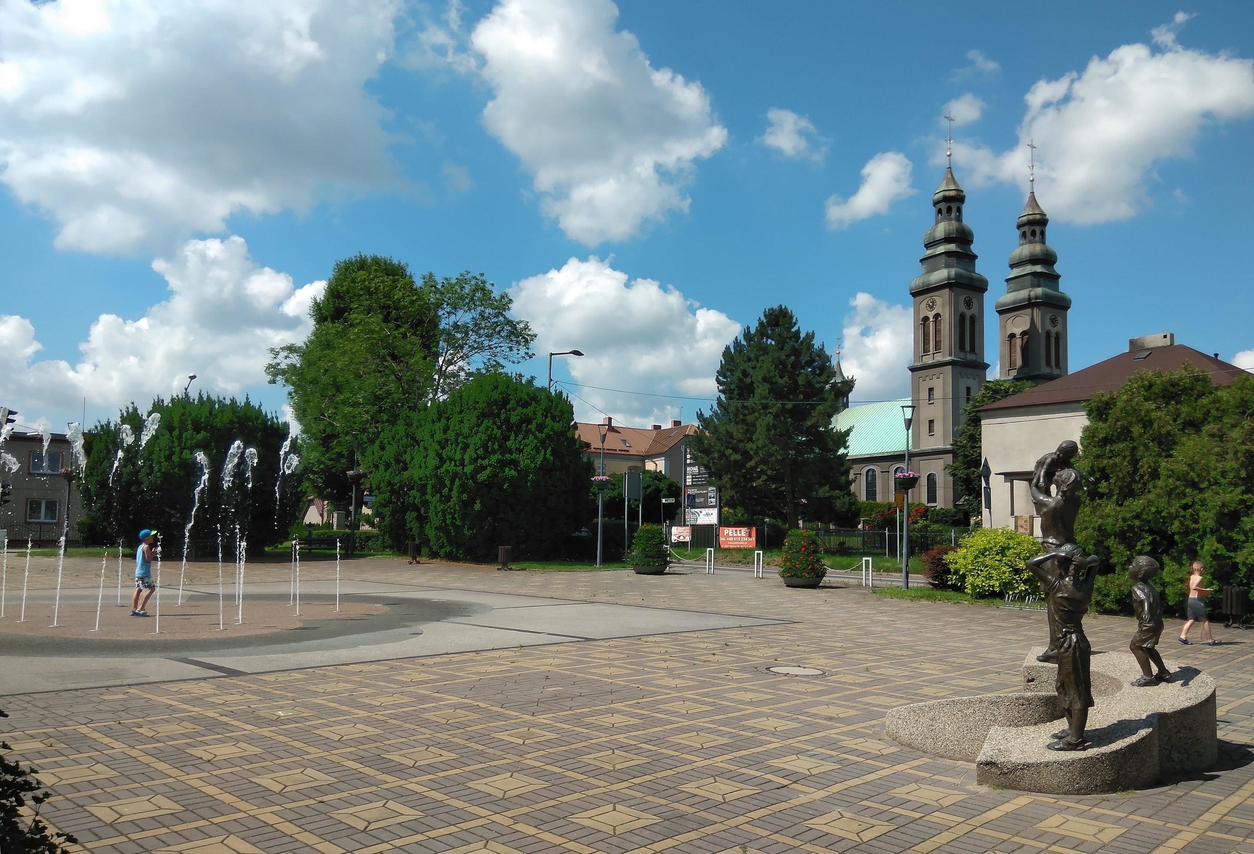 Main square of Radlin-Biertułtowy, Upper Silesia, Poland